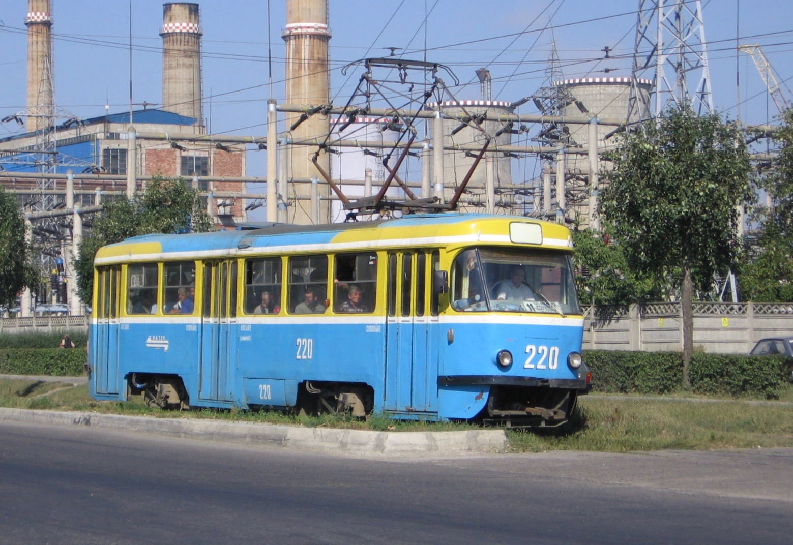 Iași tram 220, a Tatra T4R built new for the Iași system in 1977, eastbound on Calea Chișinăului just east of Bulevardul Tudor Vladimirescu, in service on route 11.